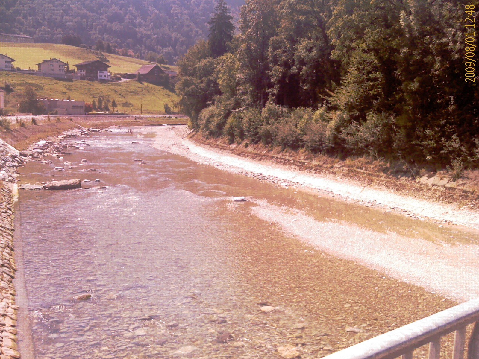 River Kleine Emme at Littau, canton of Luzern, SwitzerlandEsperanto: Rivero Kleine Emme en Littau, Kantono Lucerno, Svislando